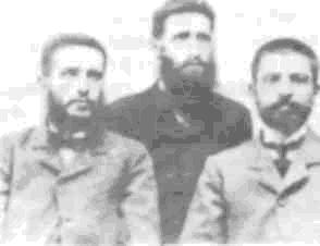 Portrait of Bulgarian revolutionaries Dimitar Miraschiev, Mishe_Razvigorov and Dobri_Daskalov from IMARO